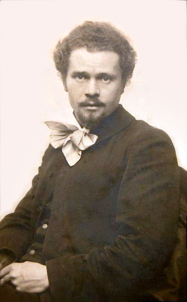 Ivan Trush as student of Cracow Academy of Fine Arts